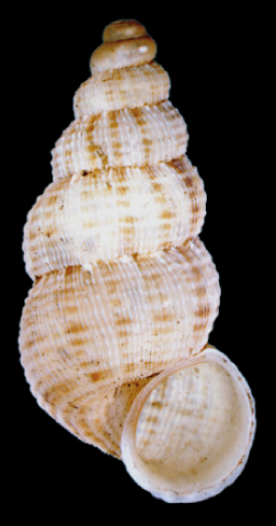 Photo of an apertural view of the shell of Diplopoma sp. from Dominica. The height of the shell is 11.0 mm.